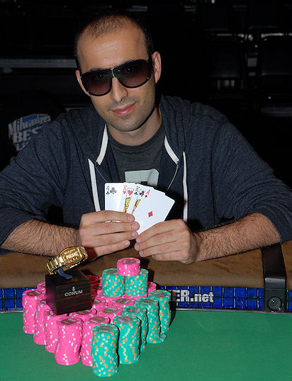 Daniel Alaei wins $10,000 World Championship Omaha Hi/Lo 8-or-better